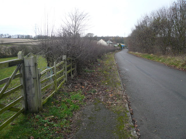 Doe Lea